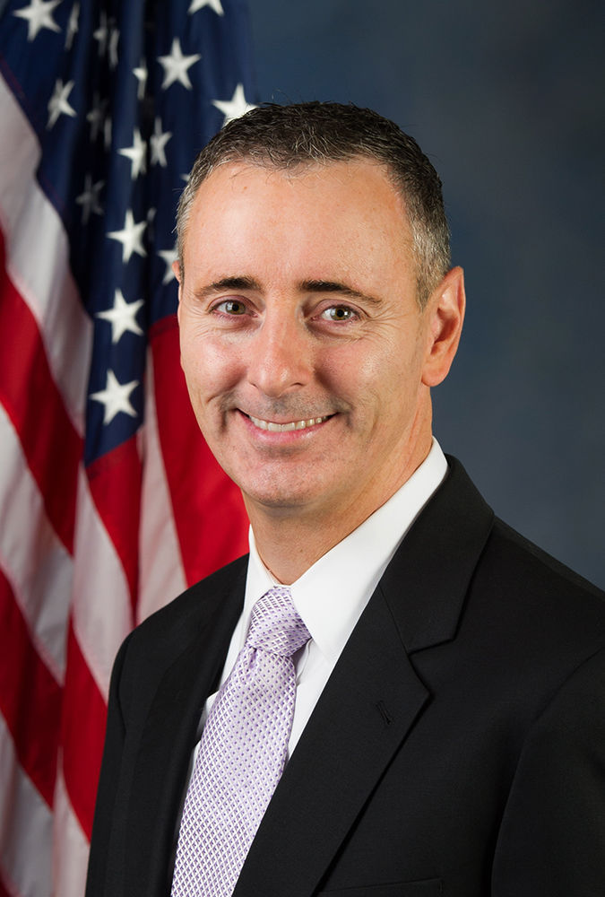 Brian Fitzpatrick official photo, 115th Congress